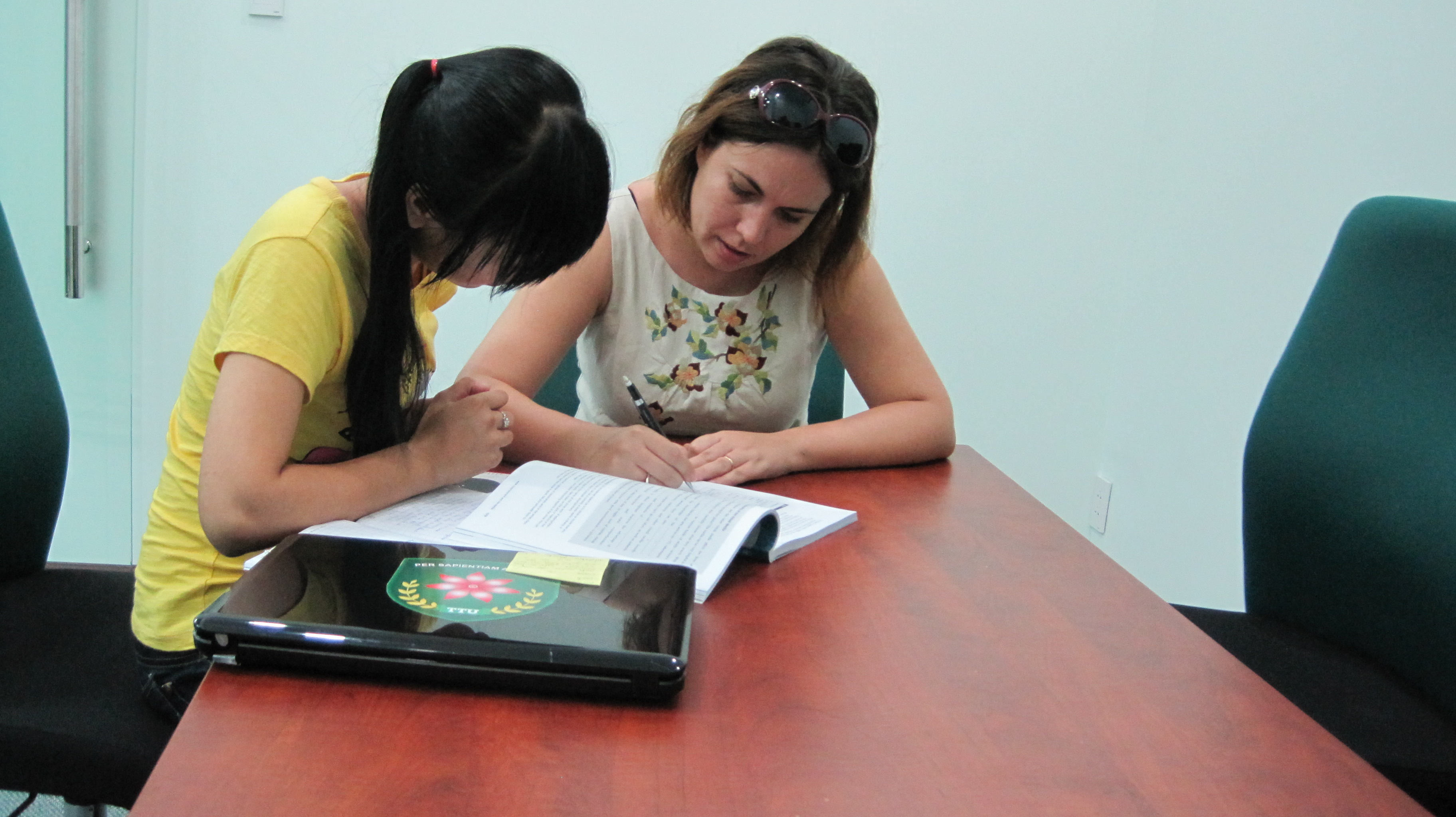 The office hours in Tan Tao University